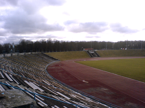 Kalevi Keskstaadion, Feb 2008